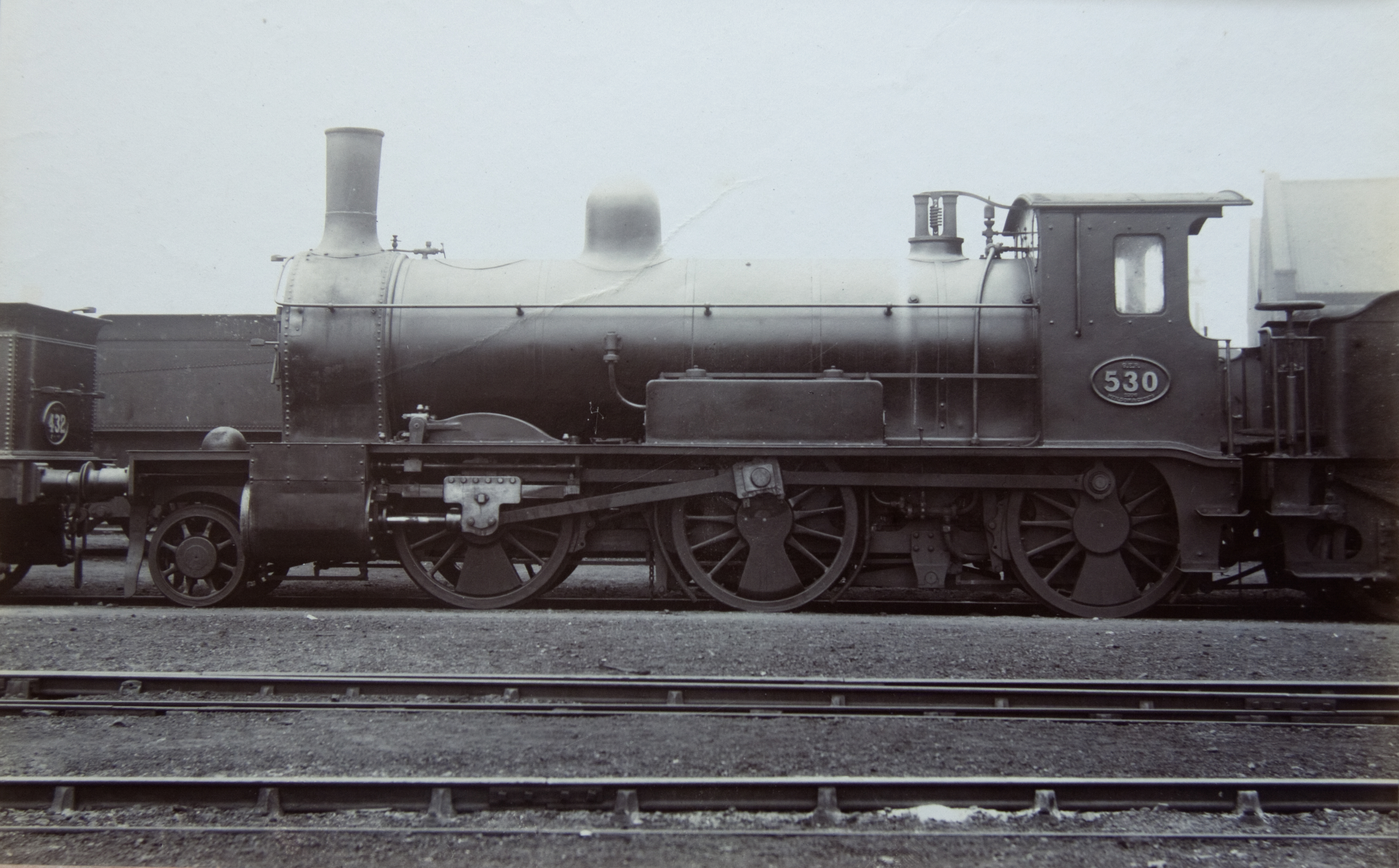 Fifteen of these Class 527s were built between 1878 and 1879. These locomotives were built in order that the GER would be better able to compete for the lucrative London coal traffic, by hauling loads of 400 tons net with one engine - some 700 tons gross - which was an exceptionally high payload for the period. They were the first 2-6-0 locomotives to run in Britain. The first engine No. 527 was named Mogul, and this became the generic name for locomotives of this wheel arrangement. This photo was taken from an old original photo we came across while helping to clear the house of a deceased friend. I have uploaded it to Flickr in the hope that it might be interesting to steam enthusiasts.